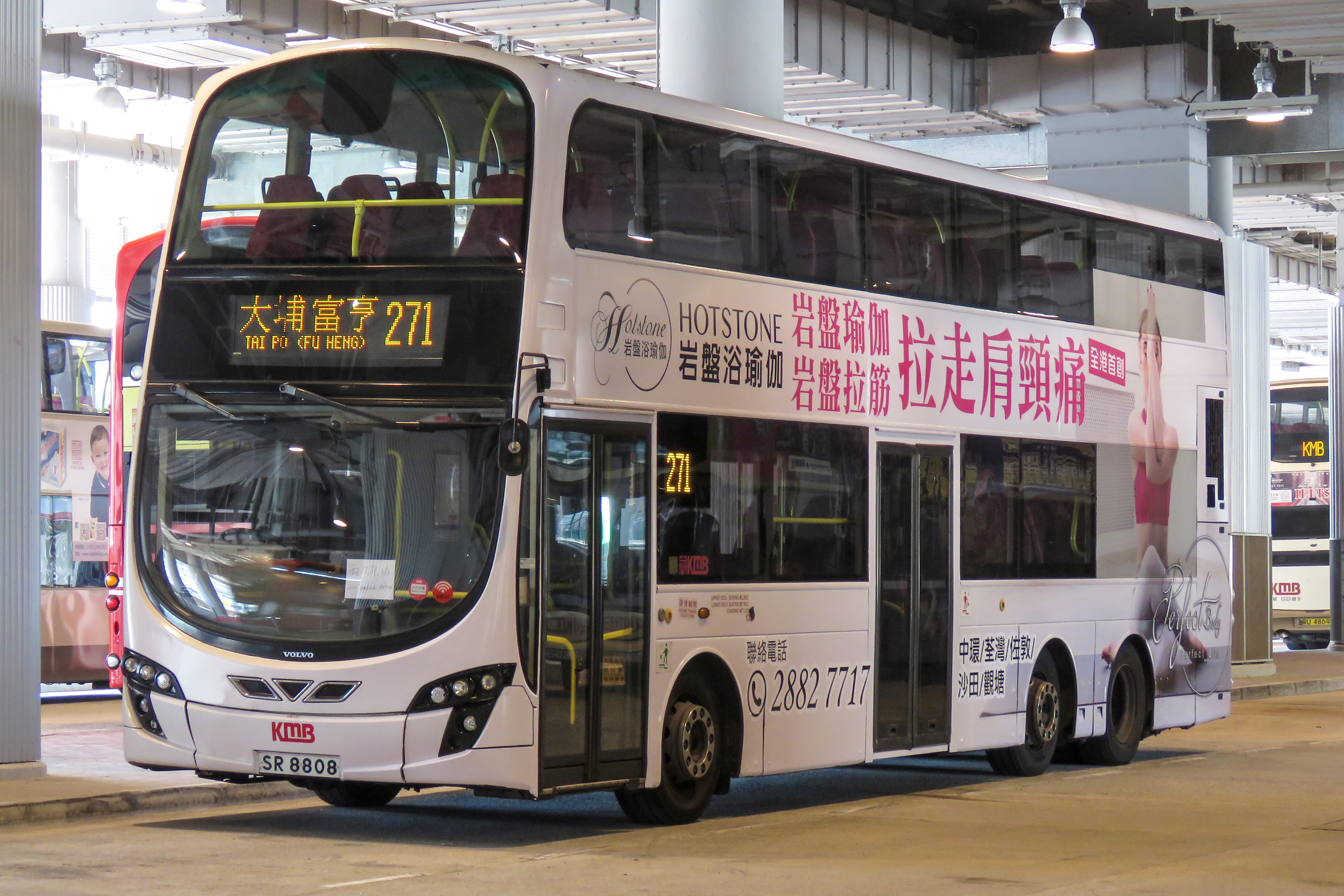 Route 271 starts from here, via Tsim Sha Tsui.